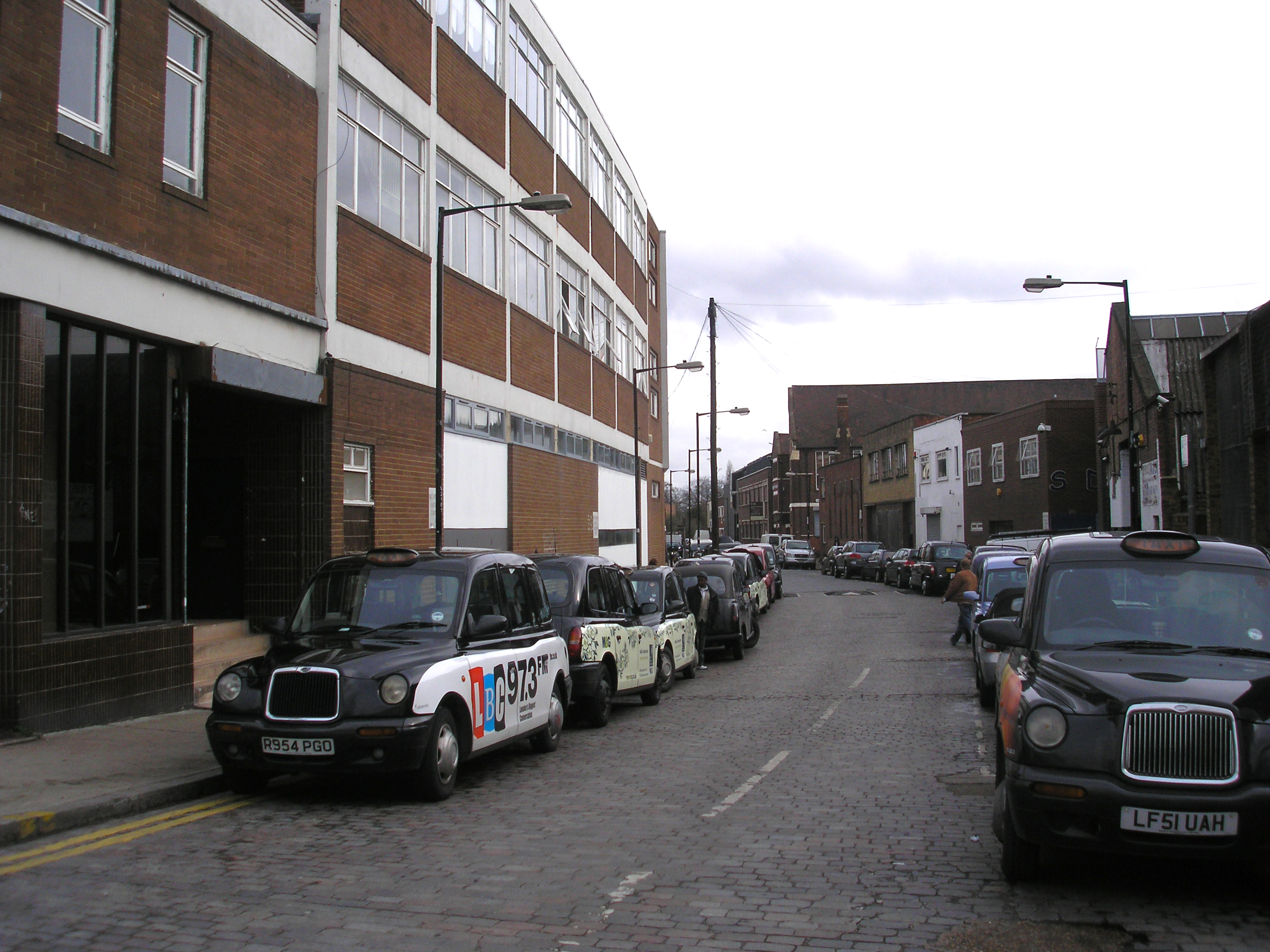 Bethnal Green: Vyner Street Off the east side of Cambridge Heath Road. Most of the vehicles parked along this street are London taxis.